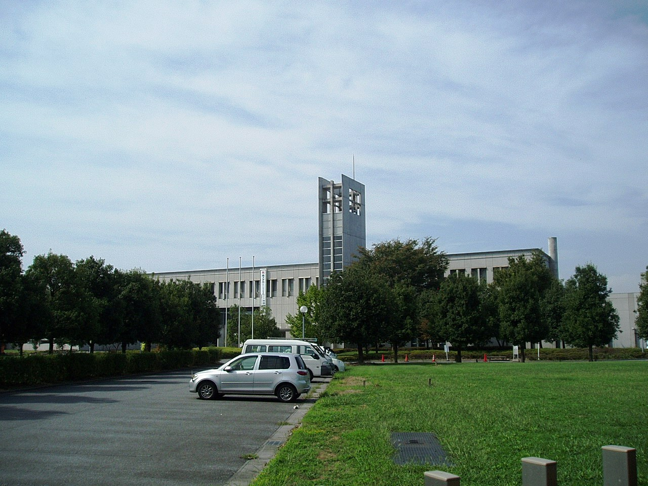 Building #1 at Toyo University Itakura Campus, located in Itakura Town, Gunma Prefecture, Japan, viewed from the East Gate